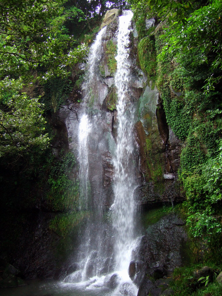 Senryugataki Waterfall